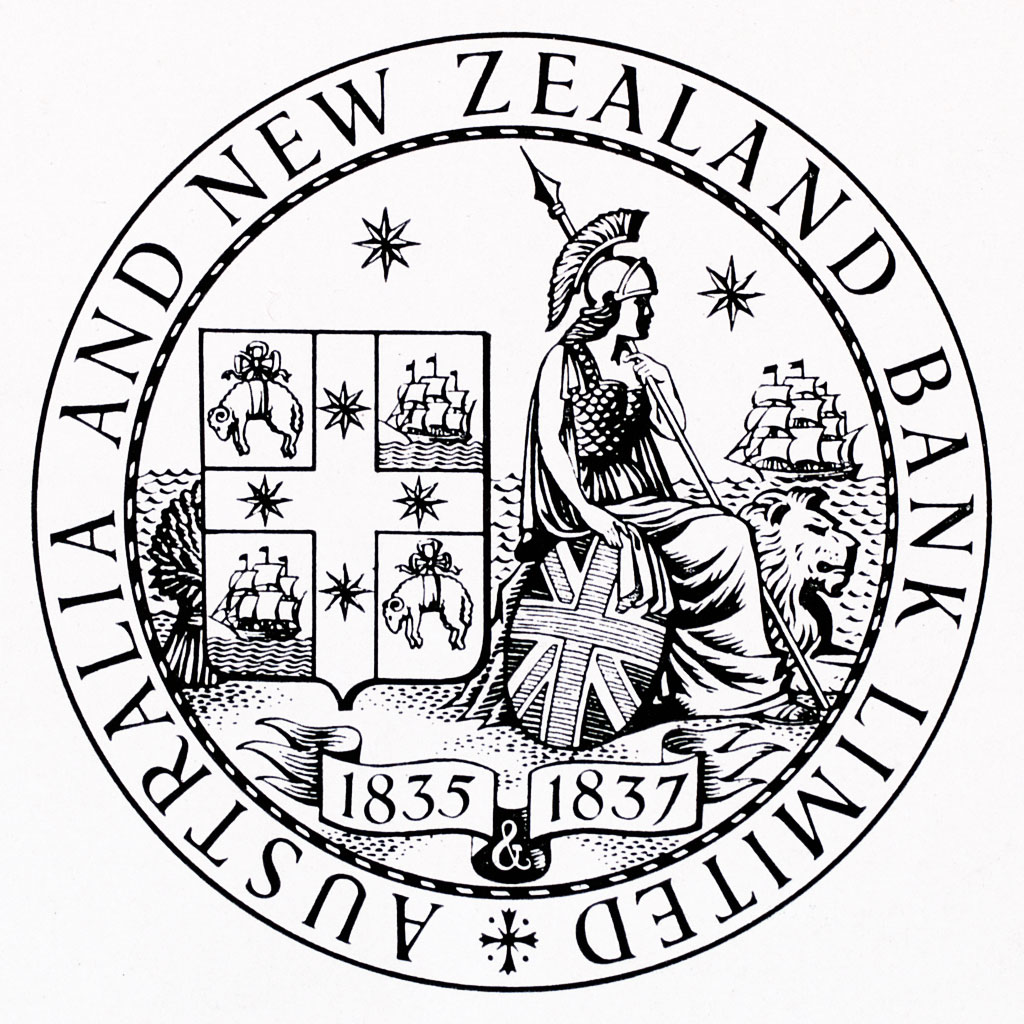 Seal of the Australia and New Zealand Bank Limited, established 1951 by amalgamation between Bank of Australasia and Union Bank of Australia Limited.